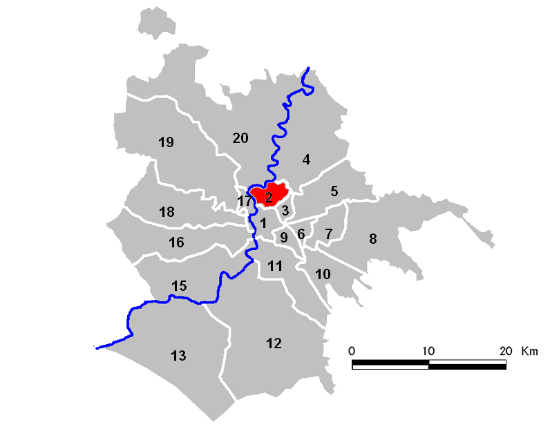 Locator maps of Rome